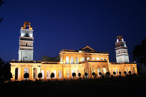 The Mohindra College, Patiala estd 1875, photographed at night time in January 2008